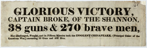 HMS Shannon captures the USS Chesapeake - News of a "glorious victory" from the Enoch Wood scrapbook